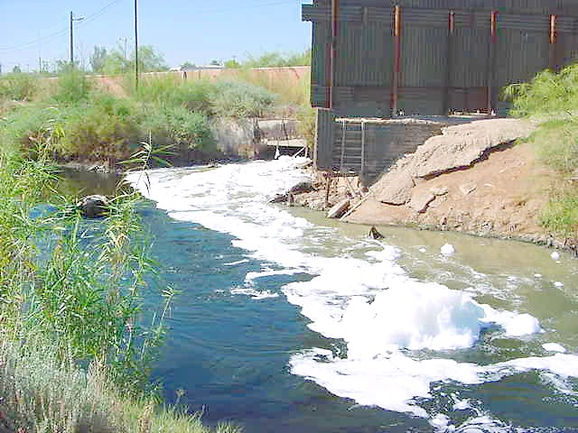 The New River flows at 200 cf s as it enters Imperial County, Southern California (United States) from Baja California state (México). The water at this point is three colors: dark green, white (foam), and milky brown/green. The septic stench is pungent, particularly during the summer season when temperatures can reach up to 120º (48ºC). The contaminated soil along the riverbanks is black . A layer of foam frequently forms on the surface of the New River near the International Boundary. This foam is often blown by the wind to areas near the river, including parking lots and a shopping center. In particular, foam often blows into the parking lot of a grocery store located near the International Boundary. Fecal califorms and fecal streptococci have been consistently detected in the New River at the International Boundary. Their presence indicates that fecal contamination of the river has occurred.